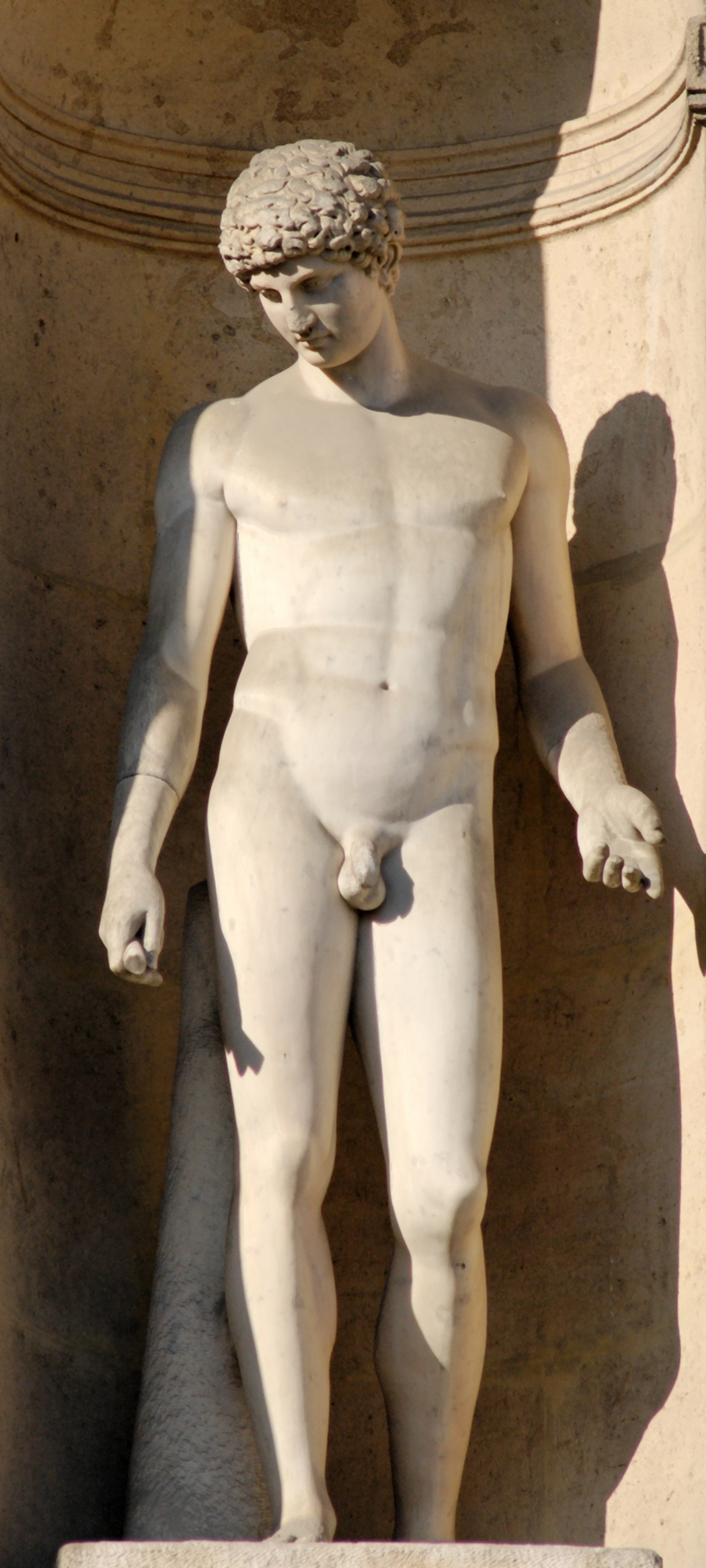 Antinous of the Capitoline type. Stone, 19th century copy after a Roman original of the 2nd century CE. First floor, West façade of the Cour Carrée in the Louvre palace, Paris.